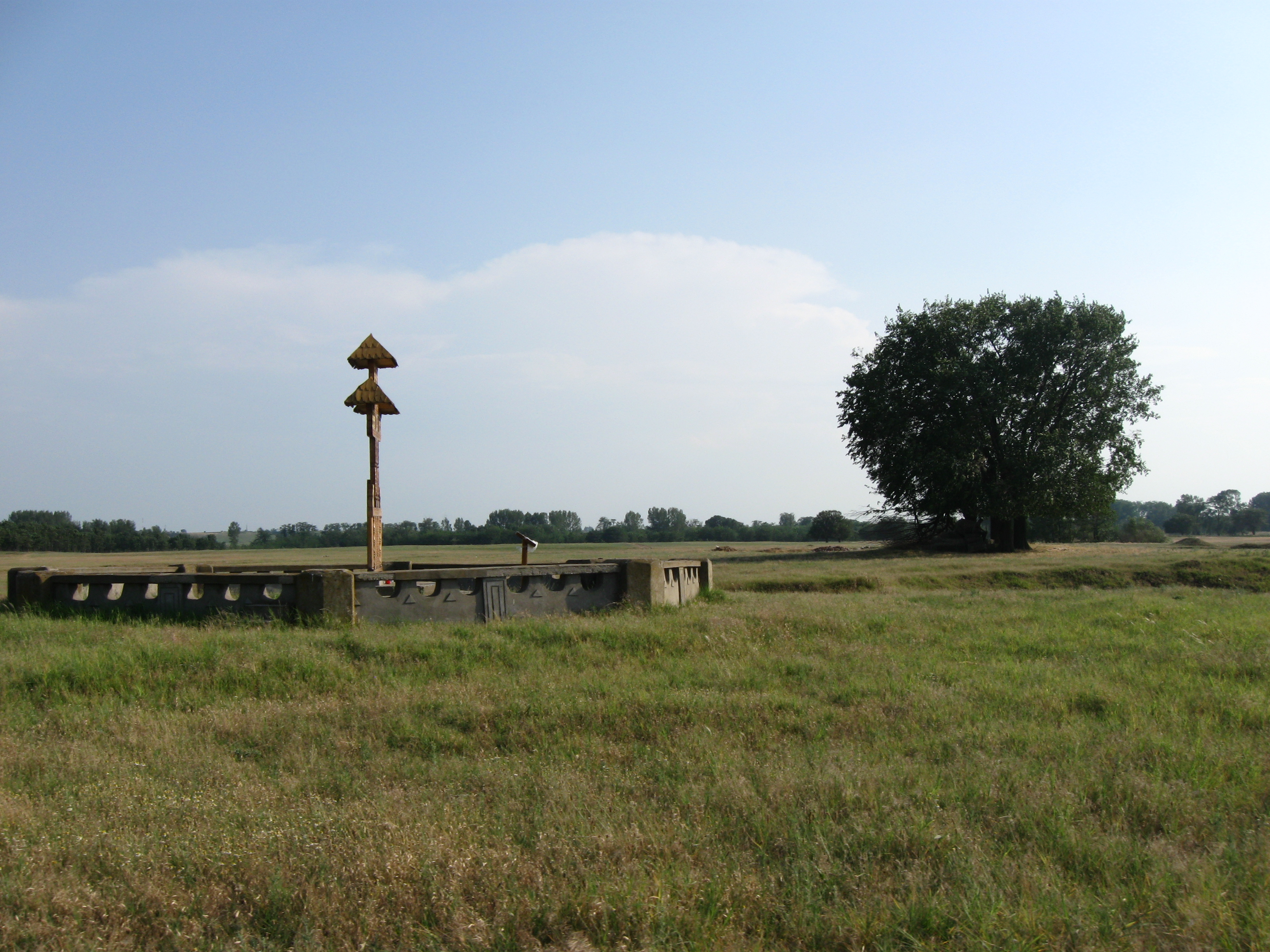 Site where the Romanian shepherd Petrache Lupu claimed to have met with God, on several occassions in 1935. Still revered by some Romanian Orthodox as a holy ground, it was the center of Charismatic worship for much of the interwar period. Located on the outskirts of Maglavit Commune, near Romania's border with Bulgaria, on the northern shore of the lower Danube.Author invokes de minimis on the inclusion of a landmark (votive cross) which may have been erected after 1990, given that Romania does not nominally allow "freedom of panorama", but noting that it would have been impossible to photograph the historical site without also including said monument.